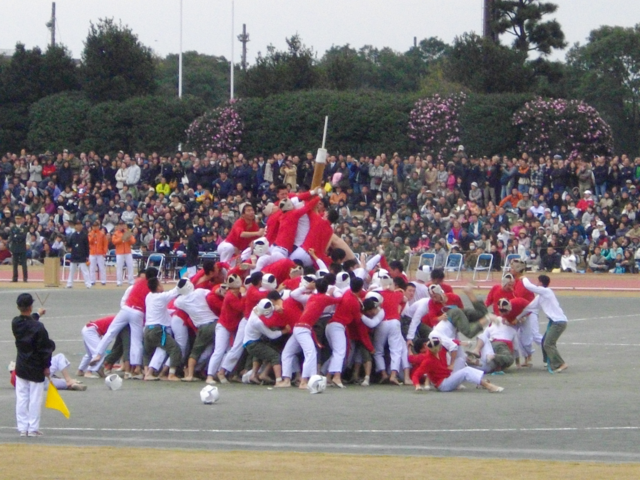 NDAJ Bo-taoshi(Pole Capturing Competition)